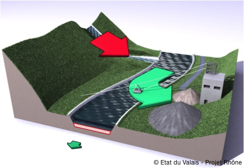 Le Rhône et les gravière